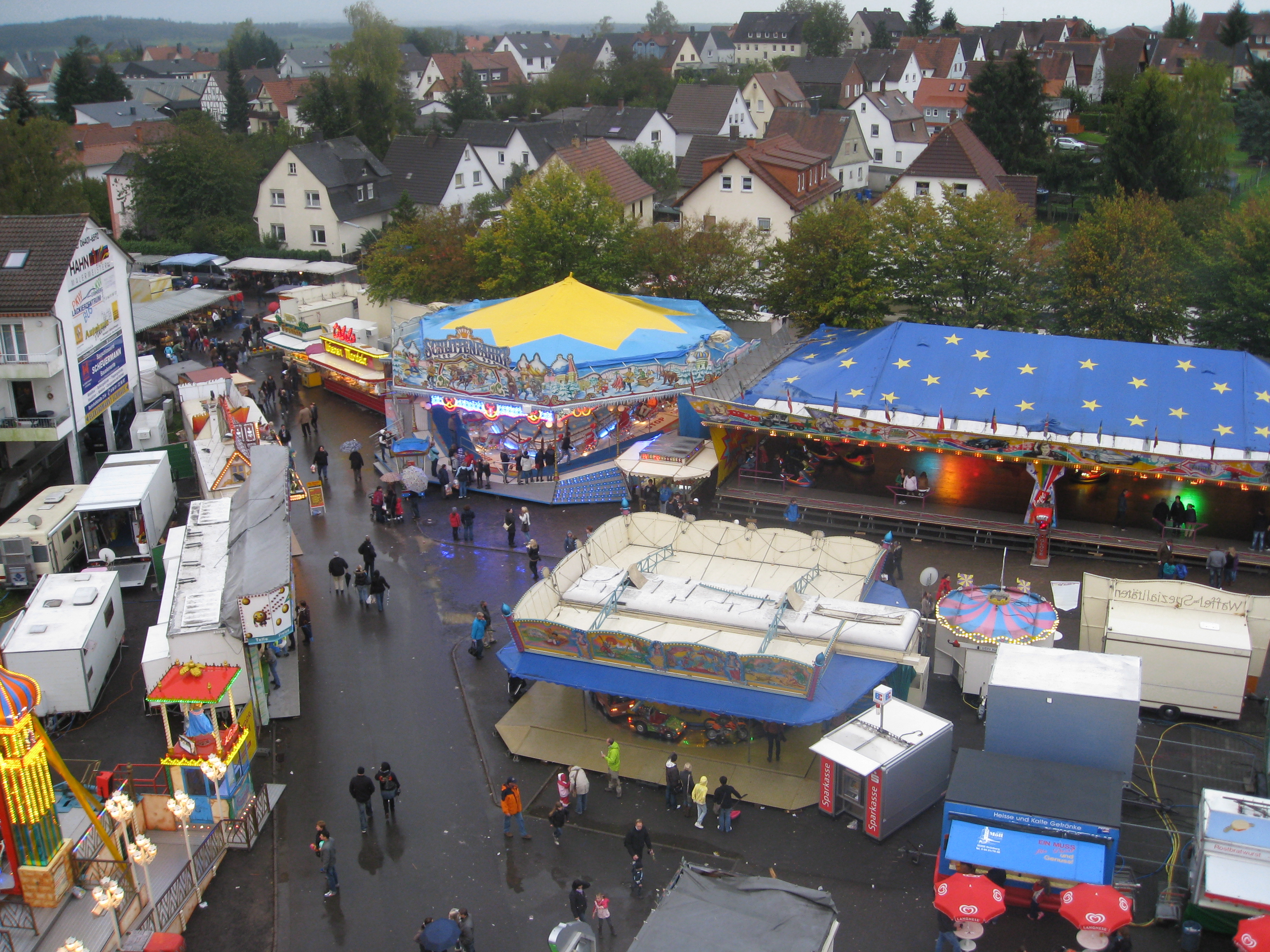 Fairground "Käswiese", October 2011